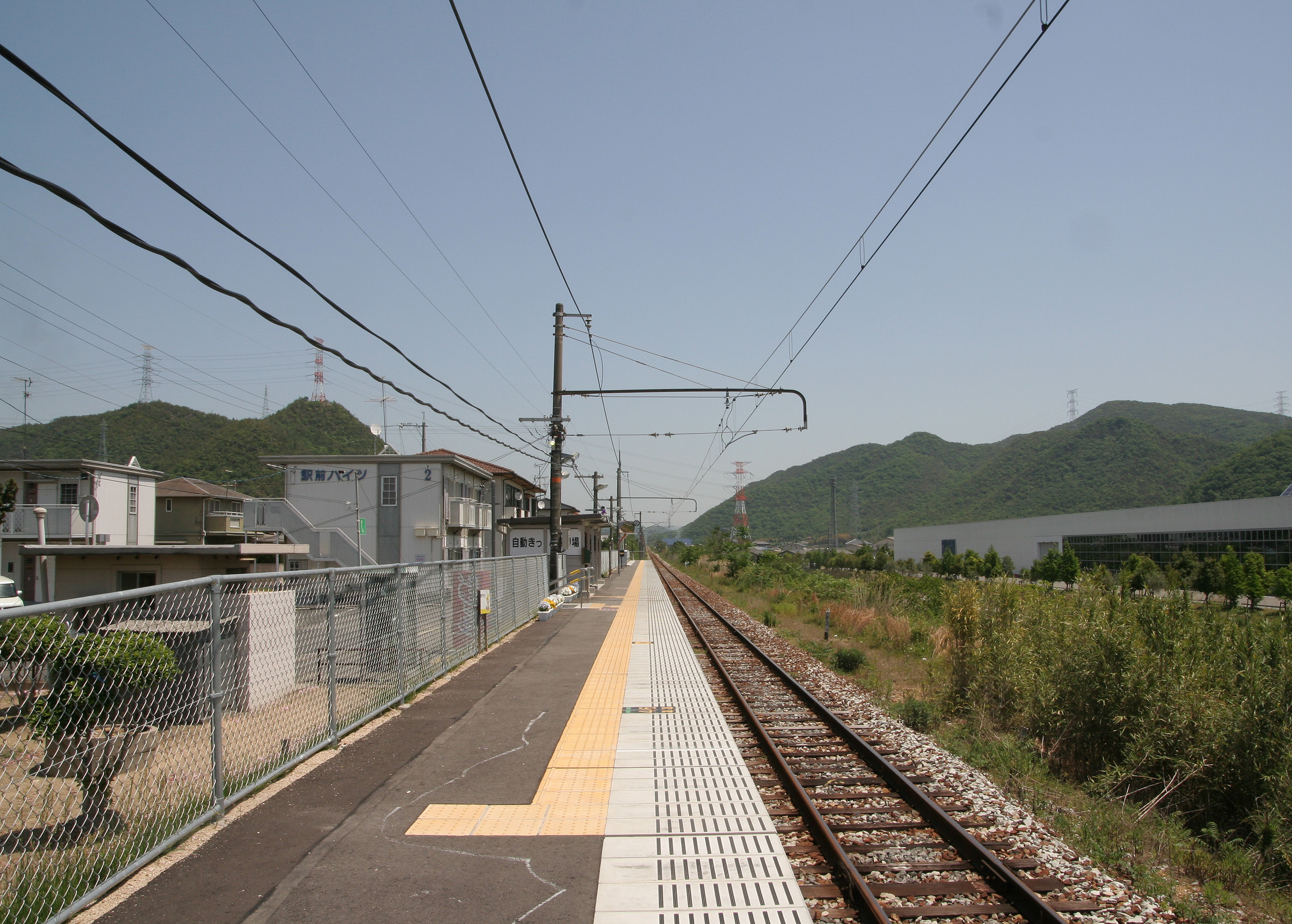 West Japan Railway Company Akō Line Kagato Station.